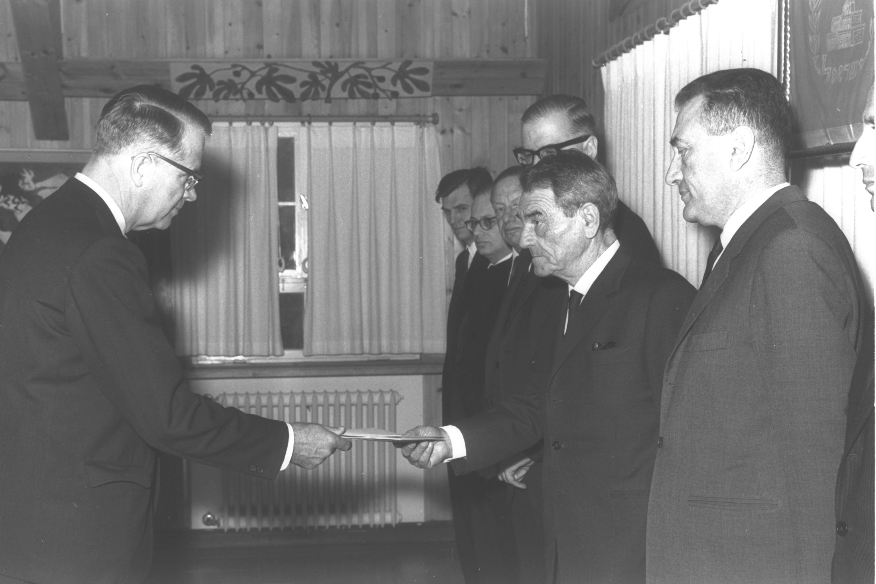 FINISH AMB. ALGAR VON HEIROTH, PRESENTING HIS CREDENTIALS TO ACTING PRES., KNESSET SPEAKER, KADISH LUZ, JERUSALEM.